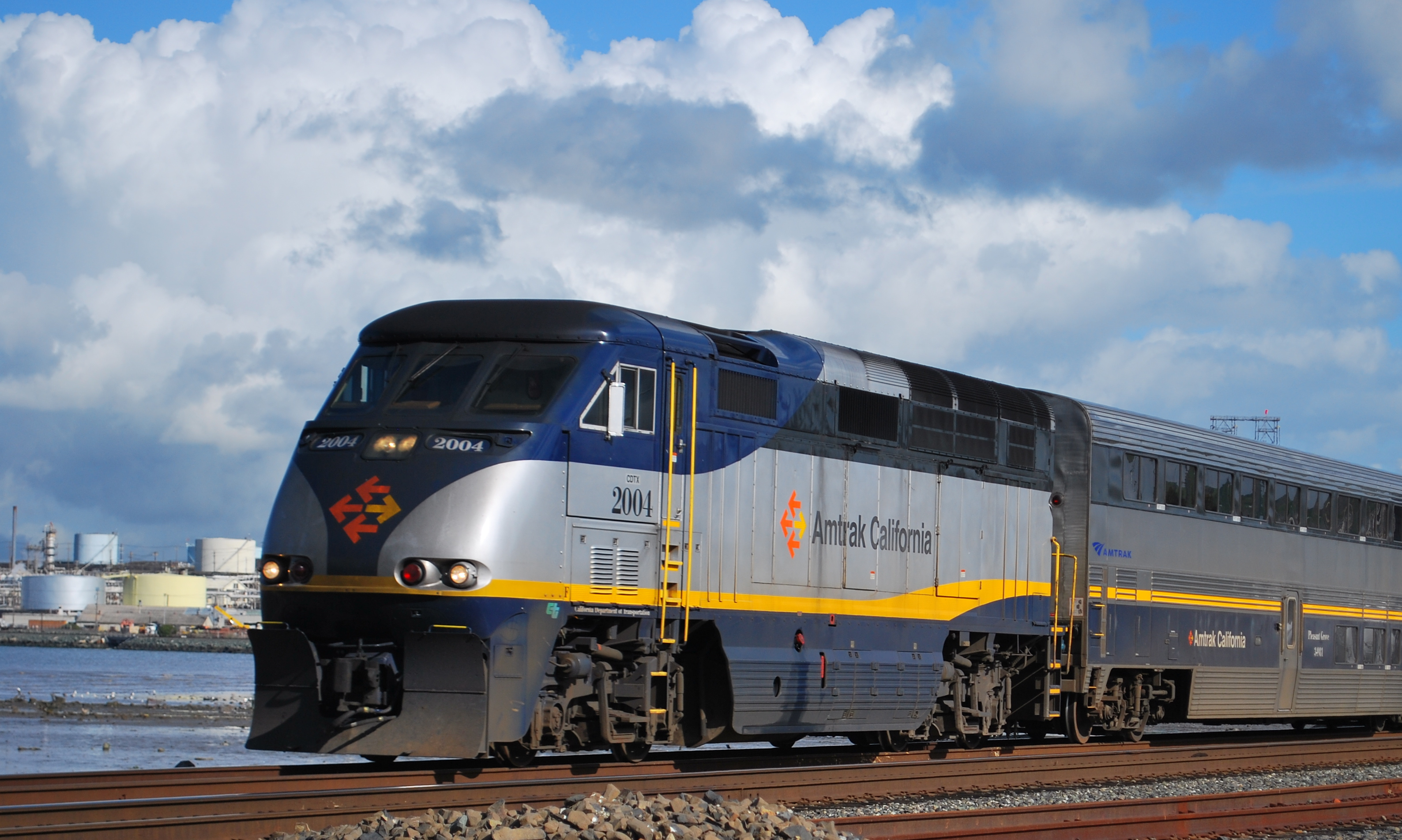 A westbound Capitol Corridor train at Rodeo, California in January 2010